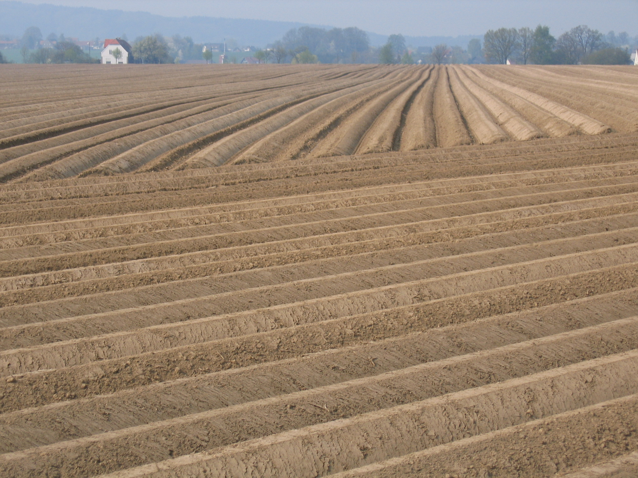 Potato field in Rödinghausen, District of Herford, North Rhine-Westphalia, Germany.